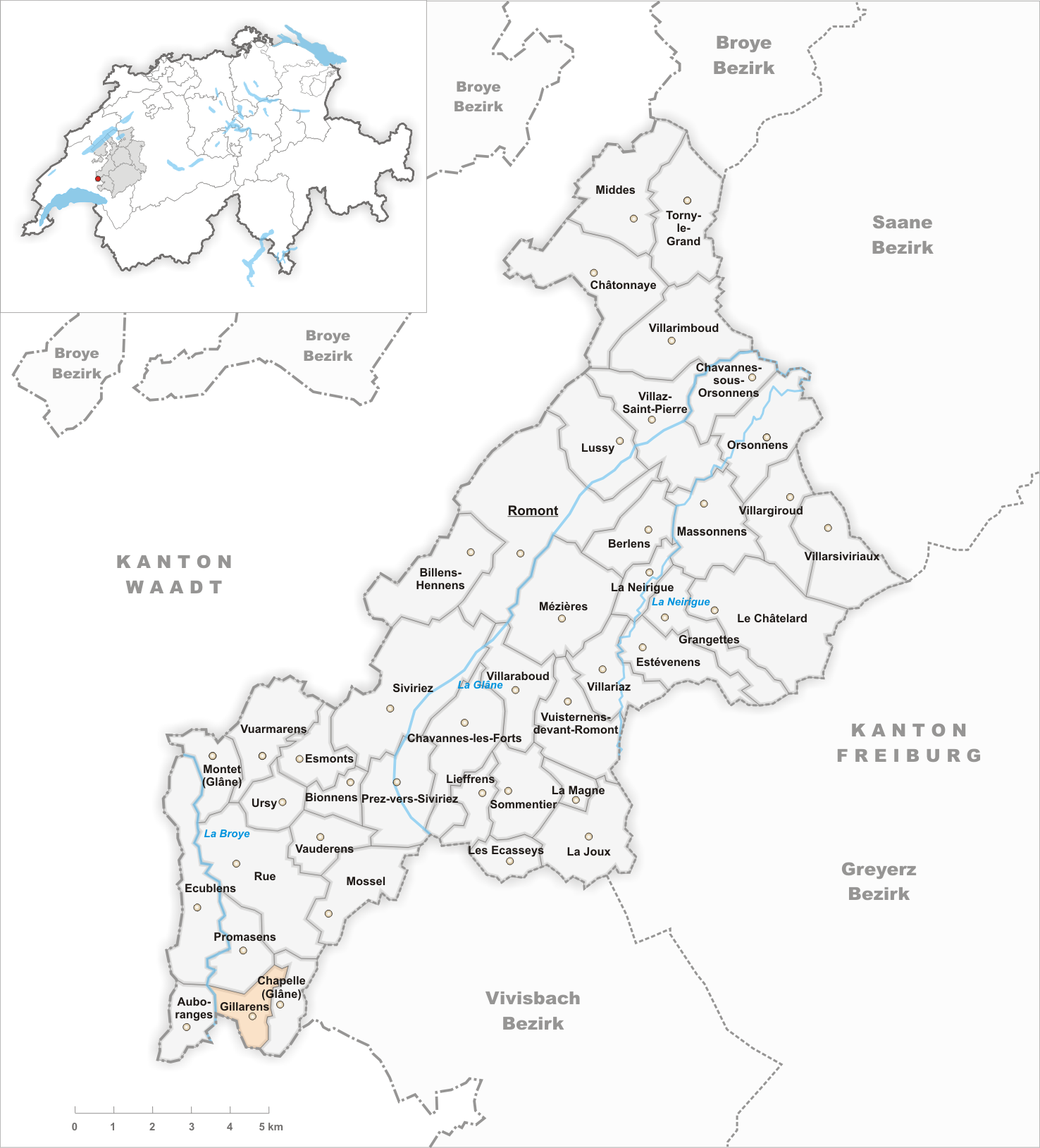 Municipality Gillarens Artist: Tschubby